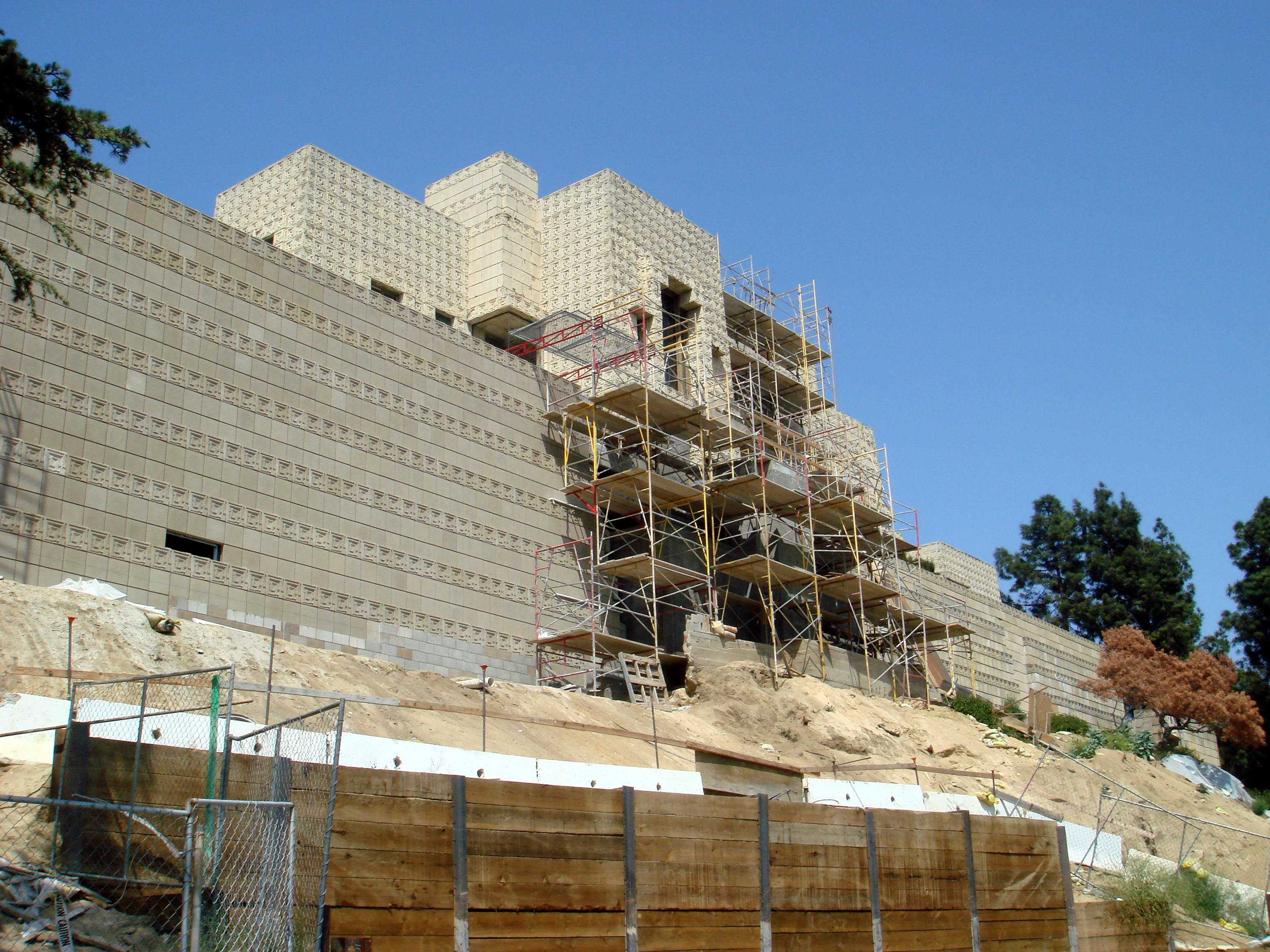 The Ennis House house, by Frank Lloyd Wright, in the hills above Los Angeles, California. The home was significantly damaged by earthquakes and is currently undergoing a multi-million dollar restoration.